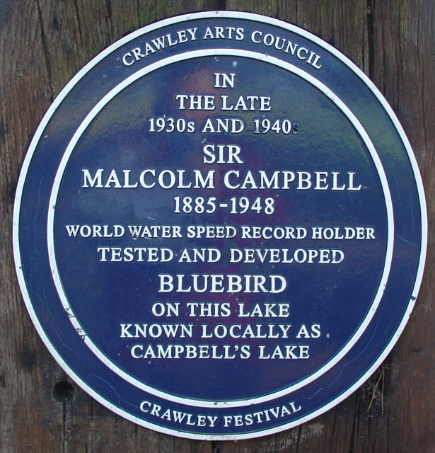 Plaque Commemorating Malcolm Campbell, Tilgate Lake (Campbell's Lake), Tilgate Park, Crawley. The Campbells used to live in the large house (now gone) of the then private estate. The large lake was used as a testing ground for some of Sir Malcolm Campbell's water borne speed vehicles.